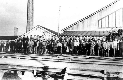 The workers of Obbola steam sawmill in 1904.